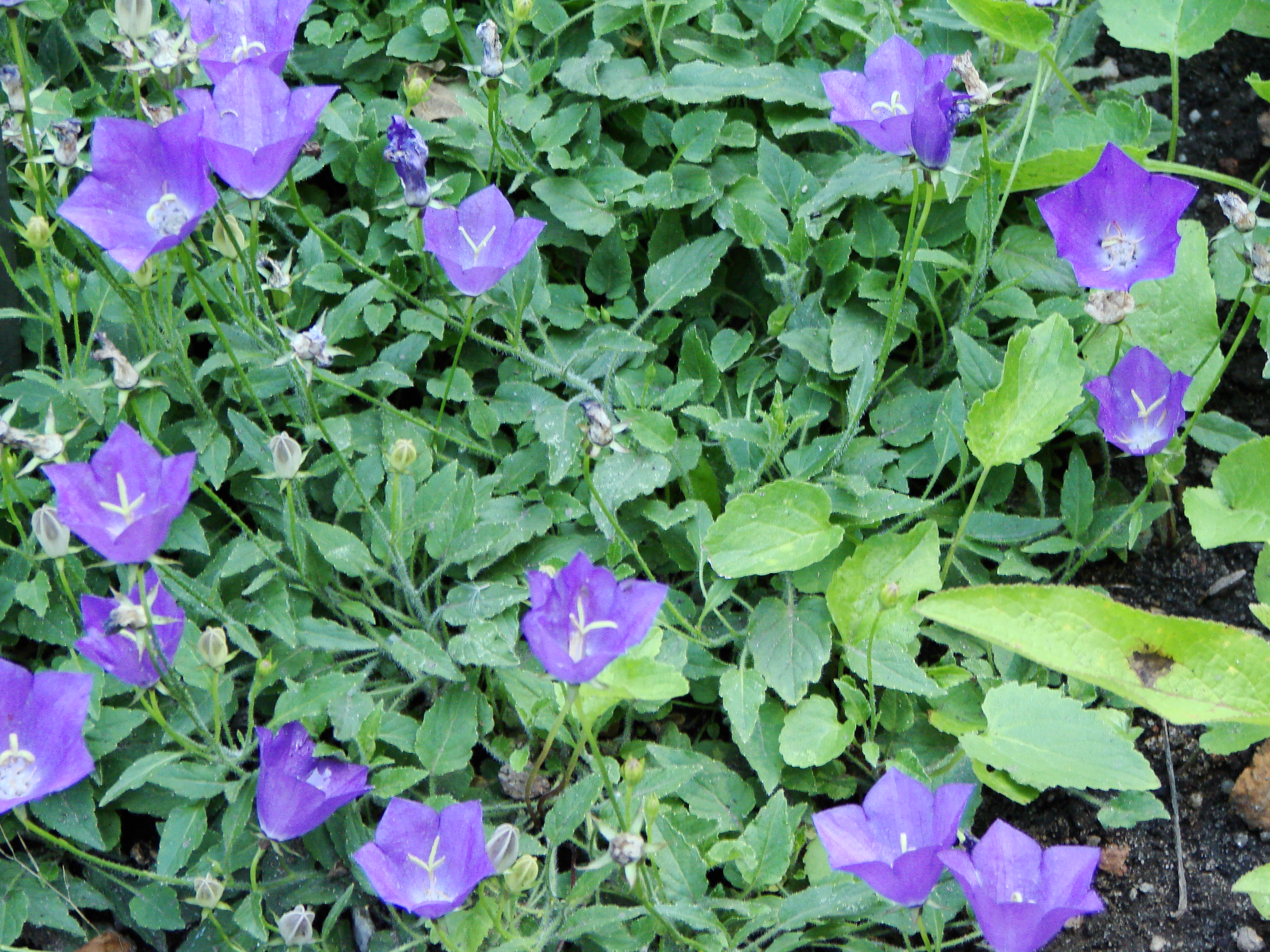 Picture taken in the university botanical garden of Wrocław (Poland): Campanula raineri Perpenti